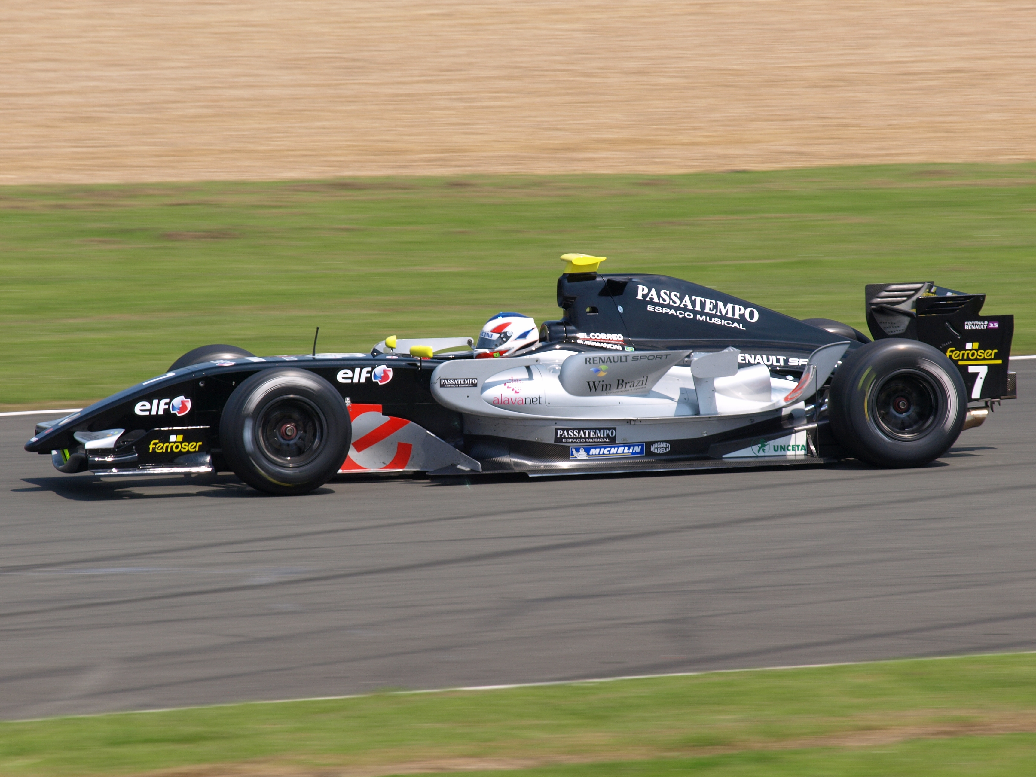 Mario Romancini driving for Epsilon Euskadi at the Silverstone round of the 2008 World Series by Renault season.